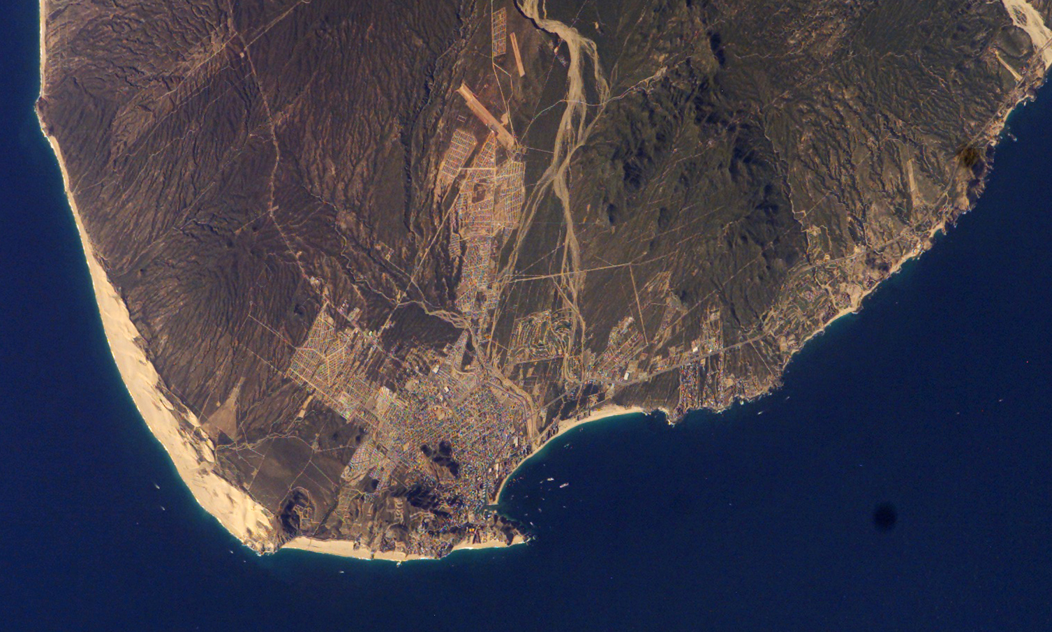 The built-up areas of Cabo (cape) San Lucas stand out as bright, angular areas inland from the main bay on the tip of the Baja California peninsula. The town is nearly centered on the bay, which looks out onto the blue waters of the Gulf of California. Three dry river beds (white sands in this arid environment) descend from rugged, wooded hills to the coastline. River sands then accumulate to form the white beaches visible along the coastline adjacent to the city. Cabo San Lucas, once just a collection of fishing villages, is now a tourist hotspot (current population 41,000), known for its mild, sunny winter weather. It has grown rapidly in the past few decades, with new neighborhoods sprawling north and northwest (indicated with lines) along major roads. Larger developments stretch northeast along the coast for 40 kilometers from Cabo San Lucas to the slightly larger city of San José del Cabo (not visible). Whale watching competes with marlin fishing as one of the area’s most popular activities.